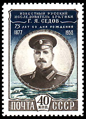 Postage stamp of the Soviet Union, Georgi Sedov (1877–1914), polar explorer, 1952